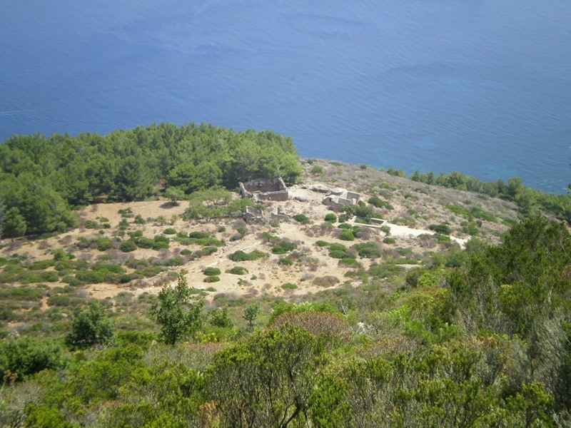 Marettimo, photograph from ridge above the town, looking down onto the ruins of the Casa Romana.